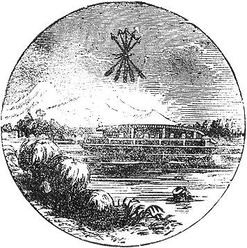 Patriotic envelope from the American Civil War depicting Ohio's coat of arms at the time. Cropped and converted to grayscale from the original.